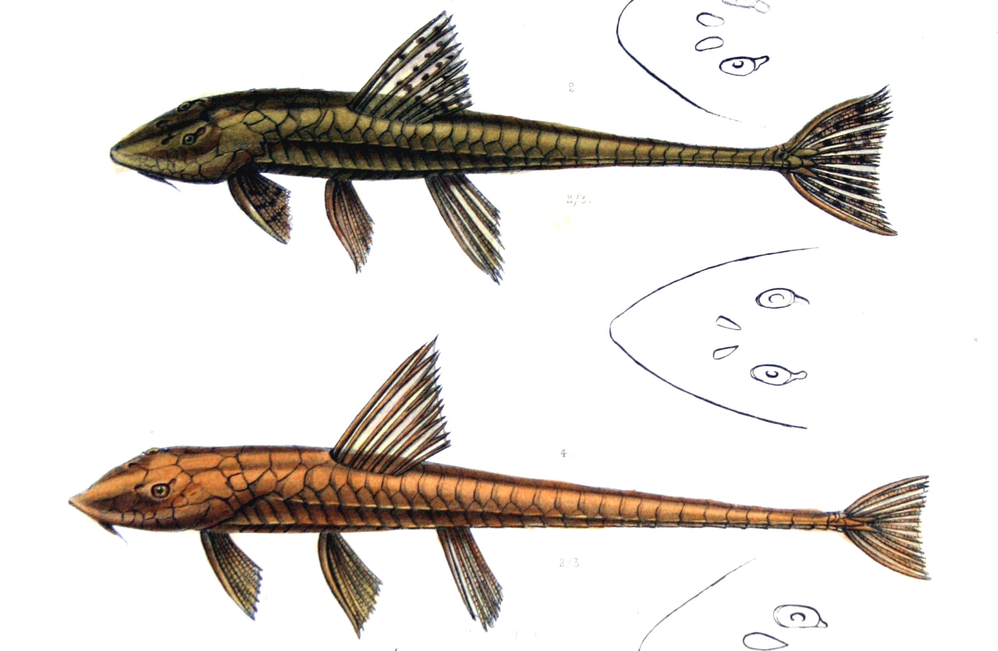 From top to bottom: Loricaria amazonica = Loricariichthys maculatus + head from above Loricaria castanea = Loricariichthys castaneus